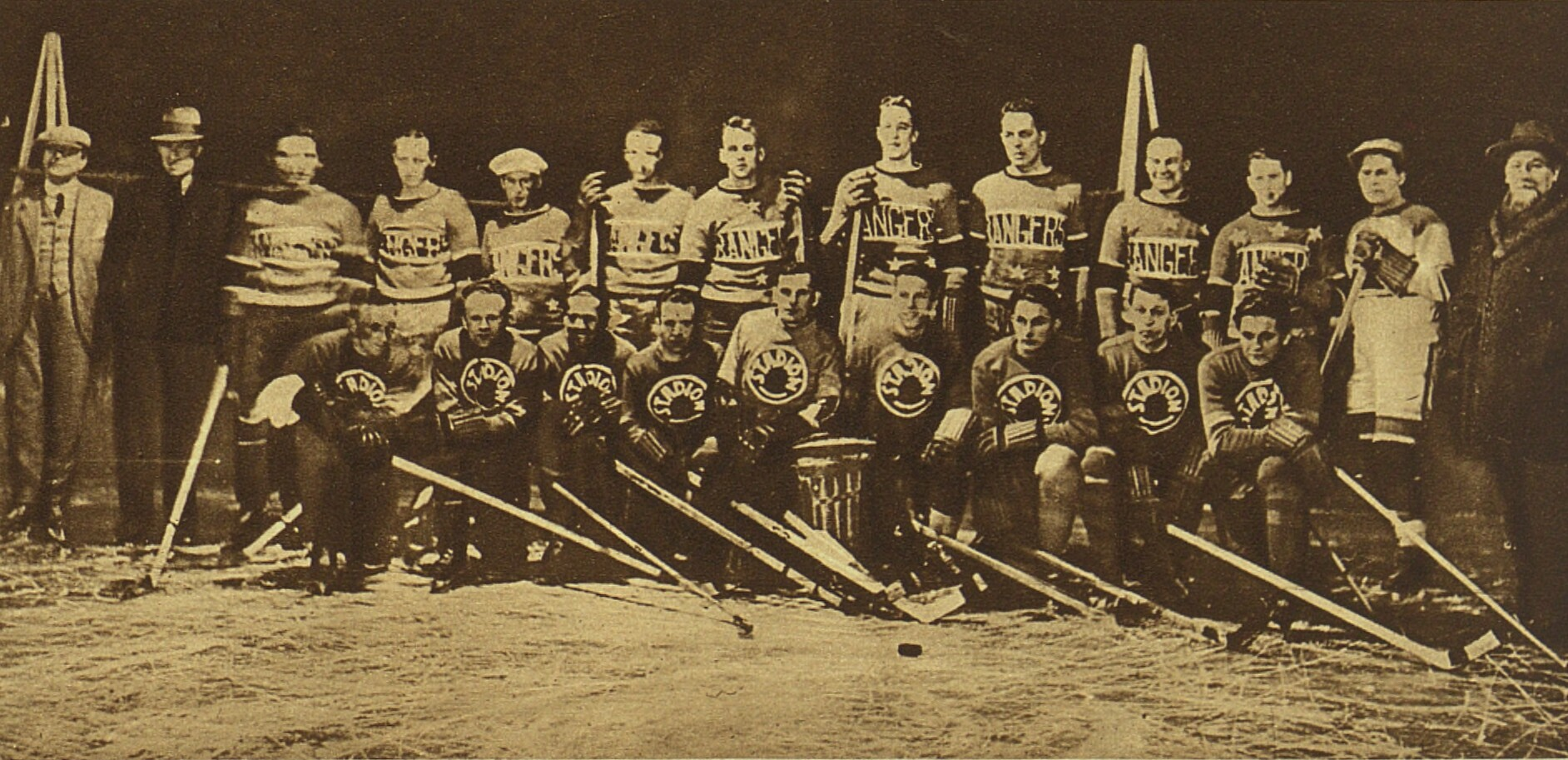 Hockey match AC Stadion České Budějovice with American world champions Massachusetts Rangers in 1933.